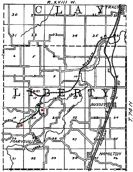 Original caption: "Figure 44. Map showing shipping mines in southeastern Marion county." Mines have been tinted red by the uploader. The towns shown are Marysville, Hamilton, Bussey and Tracy, Iowa. The railroads shown on the map are: Wabash Railroad and Chicago, Burlington and Quincy Railroad.